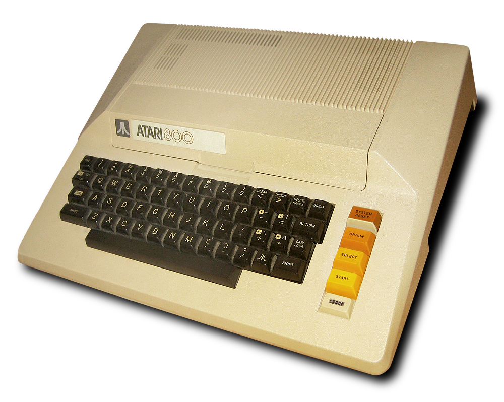 The Atari 800 personal computer. Photo taken by Hedning 081227.